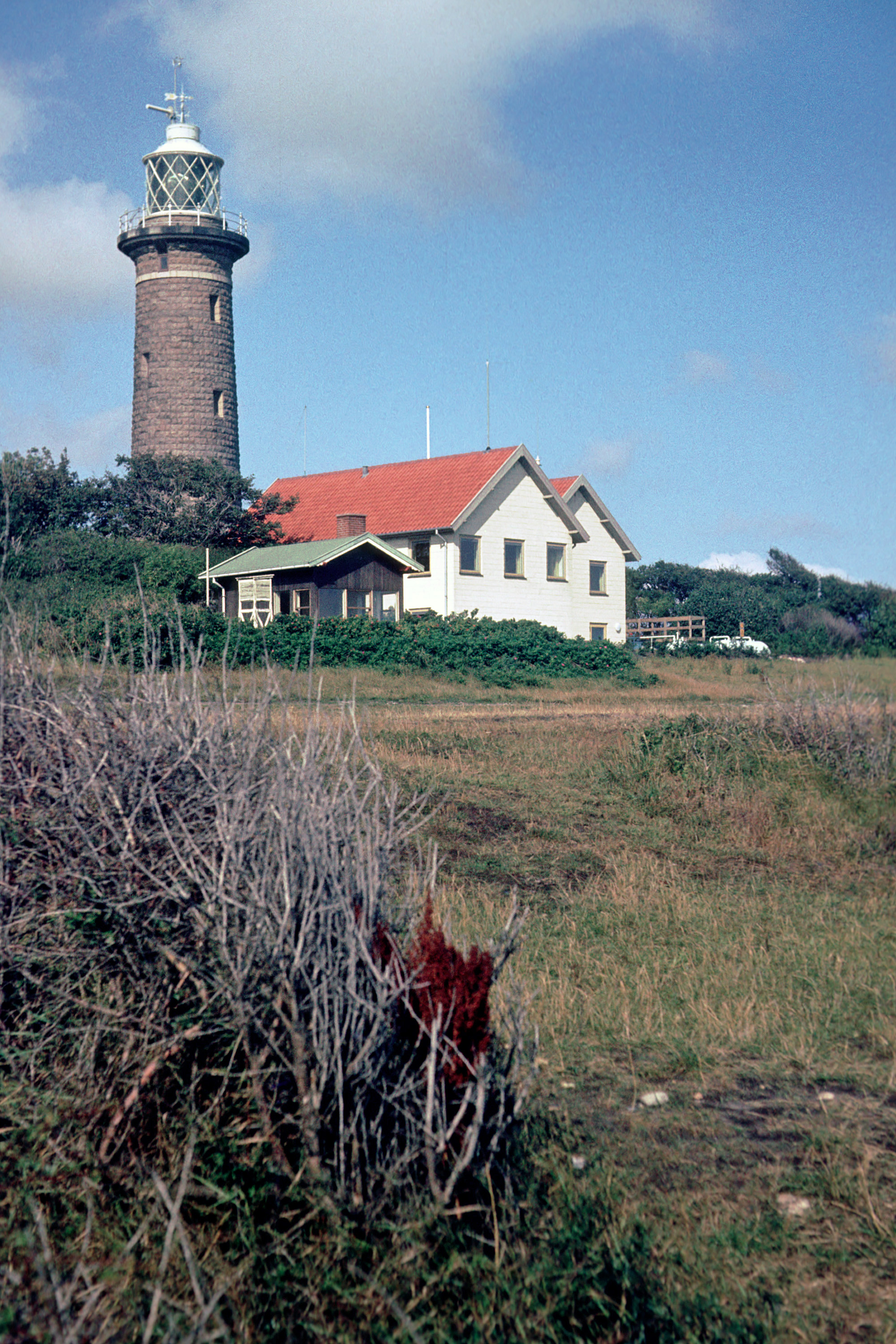 Fornæs lighthouse